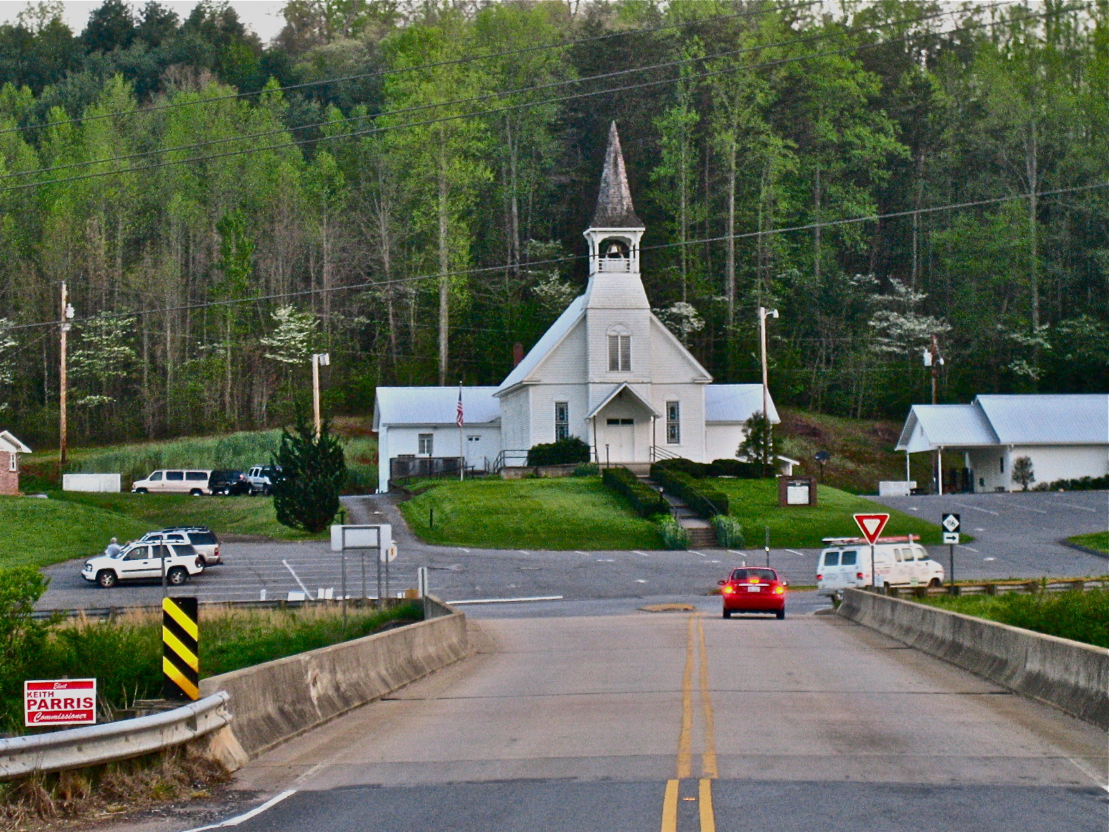 Webster Baptist Church, Webster, North Carolina